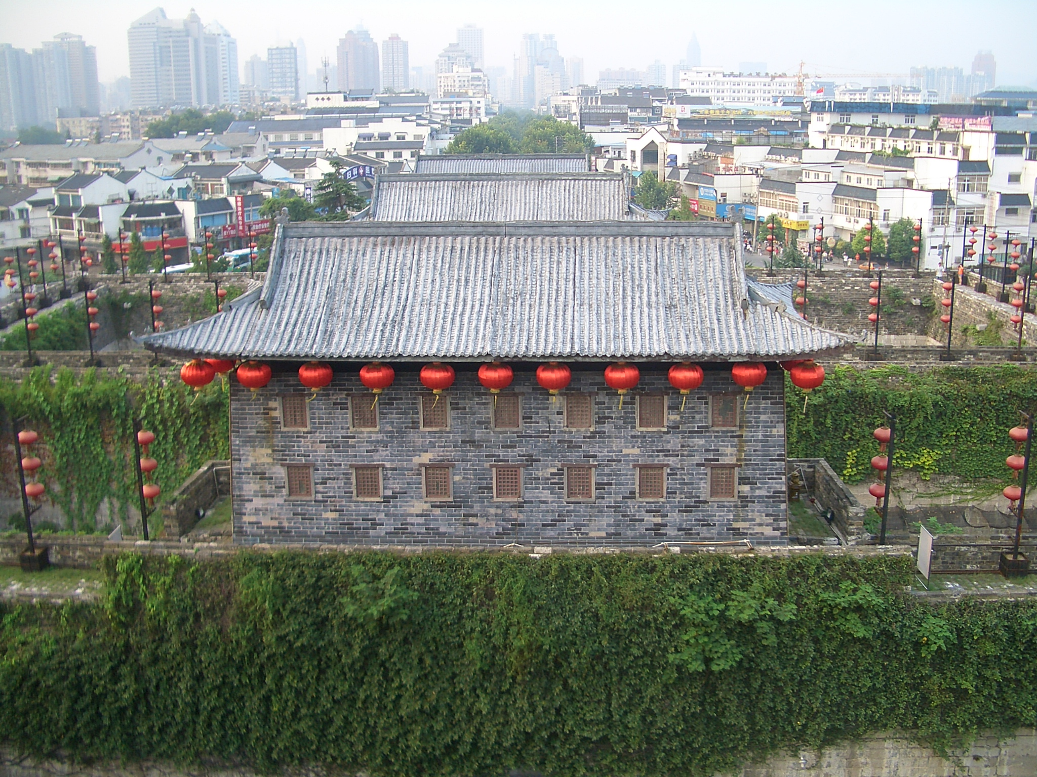 The Zhonghua Gate complex at the southern part of the City Wall of Nanjing